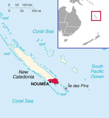 Rhacodactylus ciliatus range map, Created from the public domain image: [1] and the GFDL image: [2]